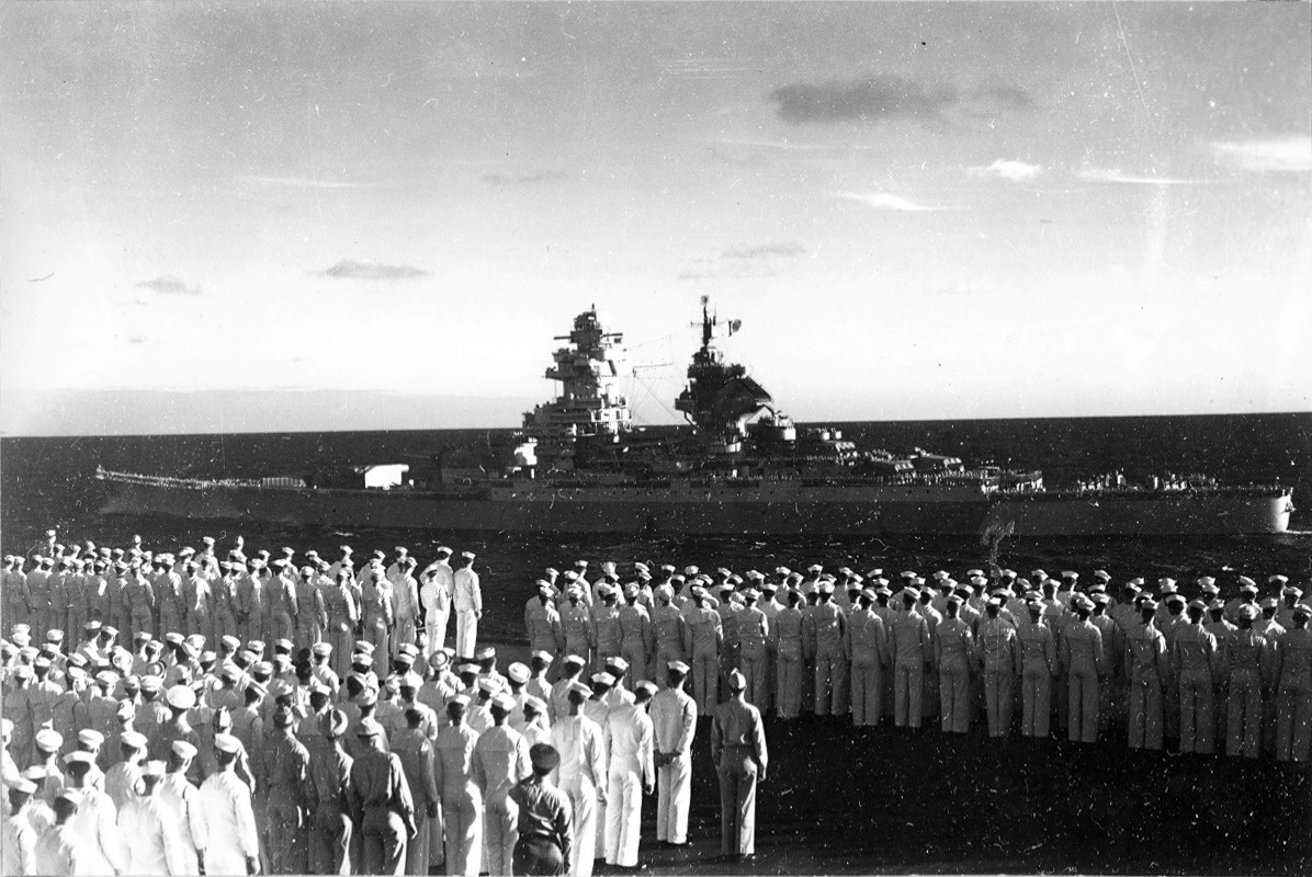 The crew of the French battleship Richelieu and the U.S. aircraft carrier USS Saratoga (CV-3) manning the rails as the Saratoga ended operations with the Royal Navy's Eastern Fleet in the Indian Ocean, 18 May 1944.The National Museum of Naval Aviation identifies Richelieu as "a ship of the British Royal Navy's Eastern Fleet".